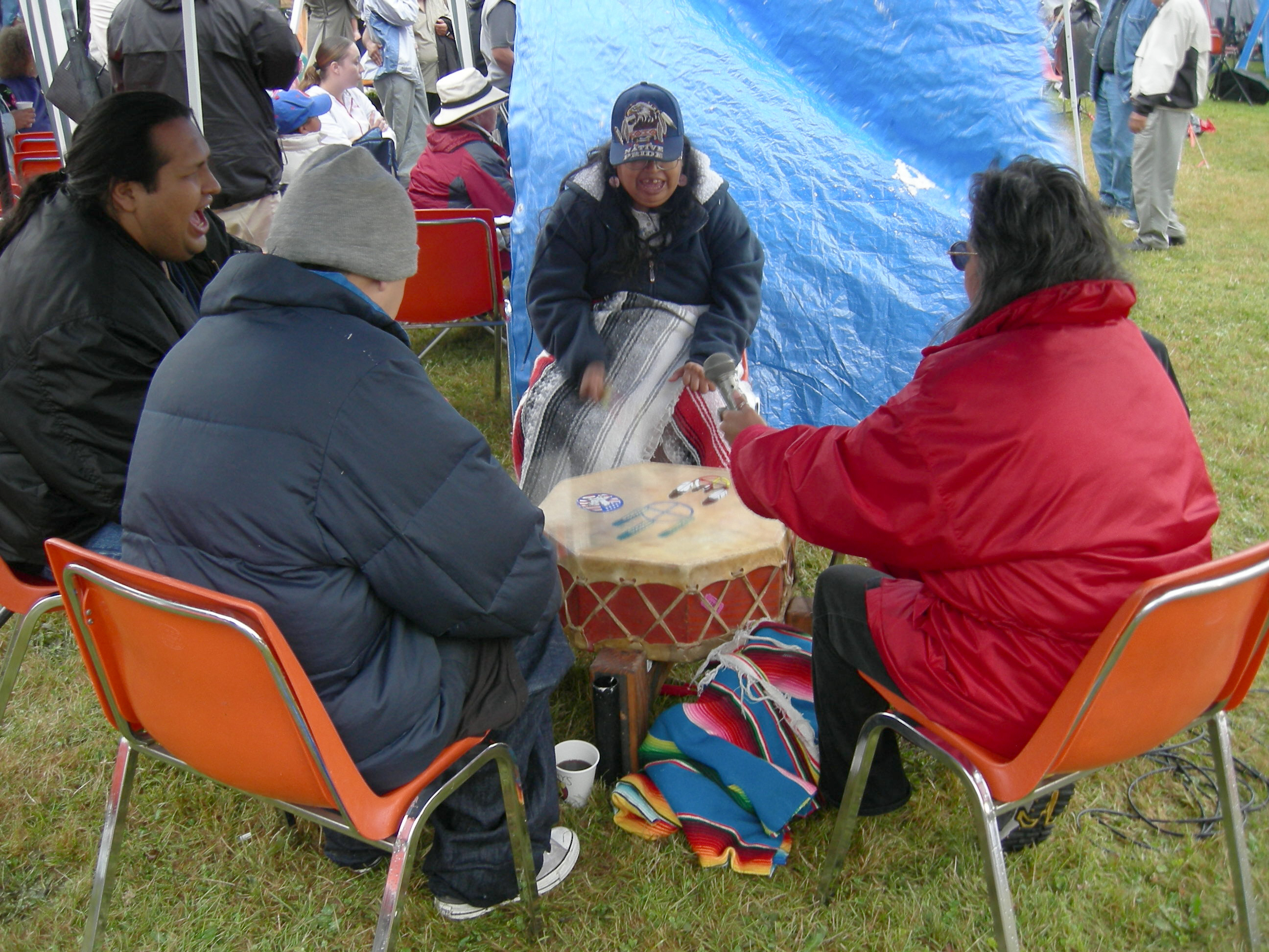 Drummers, Seafair Indian Days Pow Wow, Daybreak Star Cultural Center, Seattle, Washington. The event is part of Seafair (a series of annual summer events in Seattle) and under the aegis of the United Indians of All Tribes Foundation.